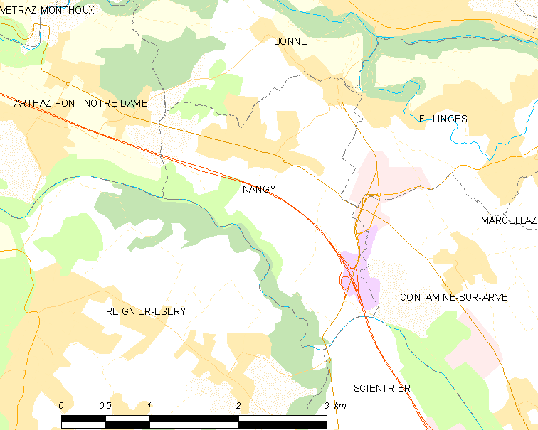 Map of French municipality Nangy